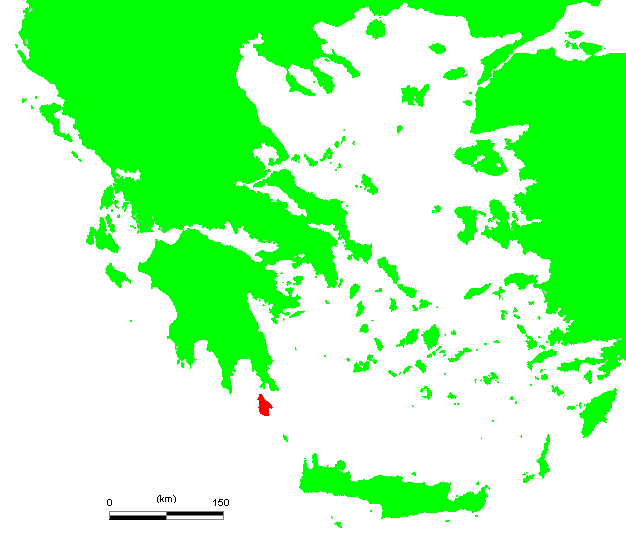 GR Kythira.PNG (Greek island)